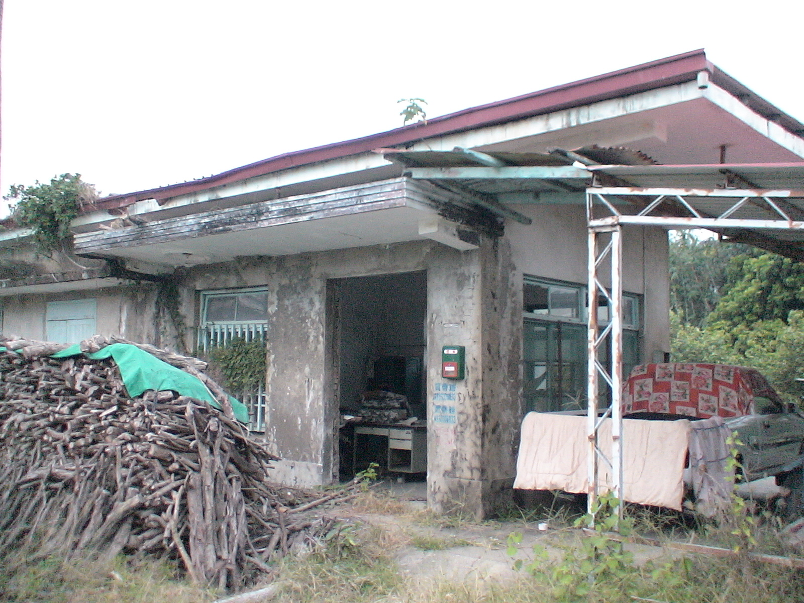 Zuojhen Station, Tainan, Taiwan